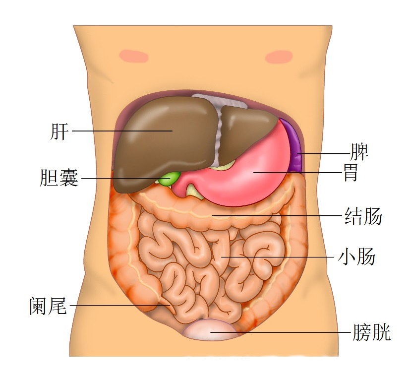 Anatomy of the human abdomen, by Ties van Brussel / tiesworks.nl